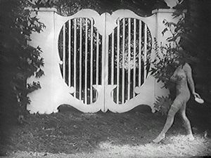 Margaret Edwards as "Naked Truth" in the film Hypocrites (1915), directed by Lois Weber.